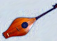 A Chonguri, a traditional Georgian string instrument. Not a great picture I know - if you have a better one, please upload it.